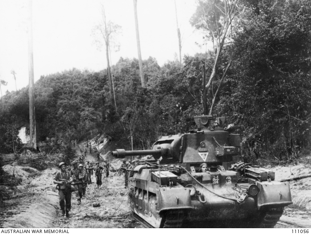 Infantrymen of the 2/10th Aust Infantry Battalion advancing behind a Matilda Frog Flamethrower tank alongn a jungle track at Battle of Balikpapan